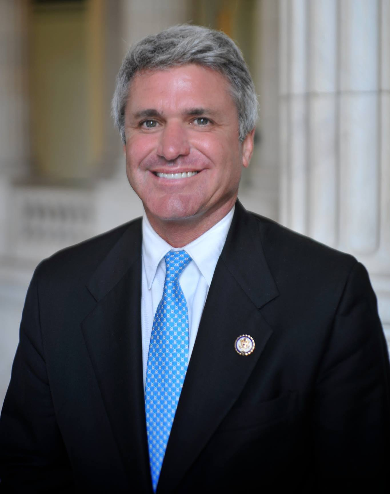 Michael McCaul official photo